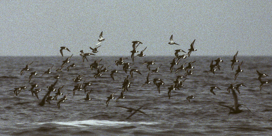 White-vented Storm-Petrels - Paracas - Perù 860010